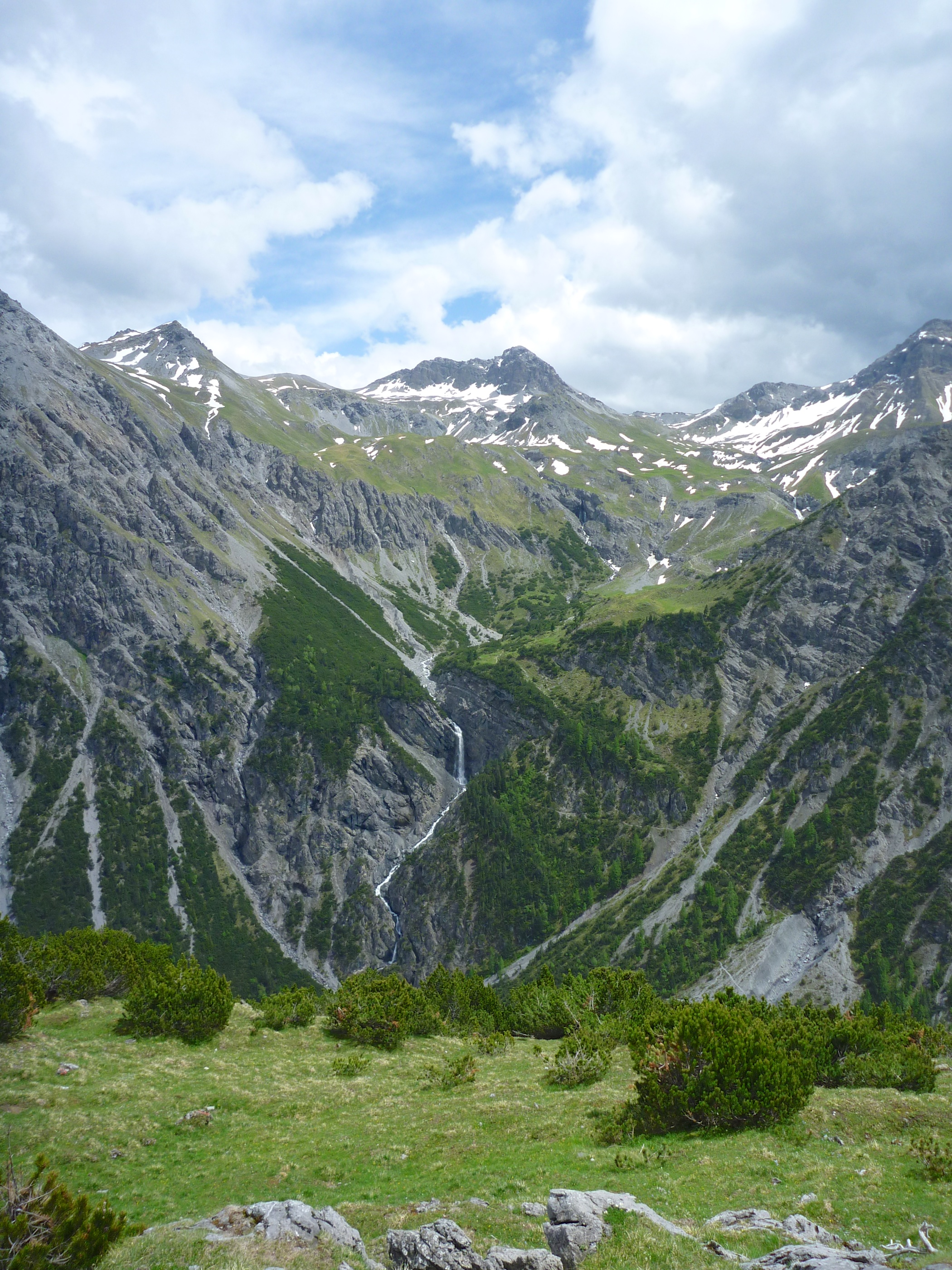 Altein Falls at Arosa/Switzerland